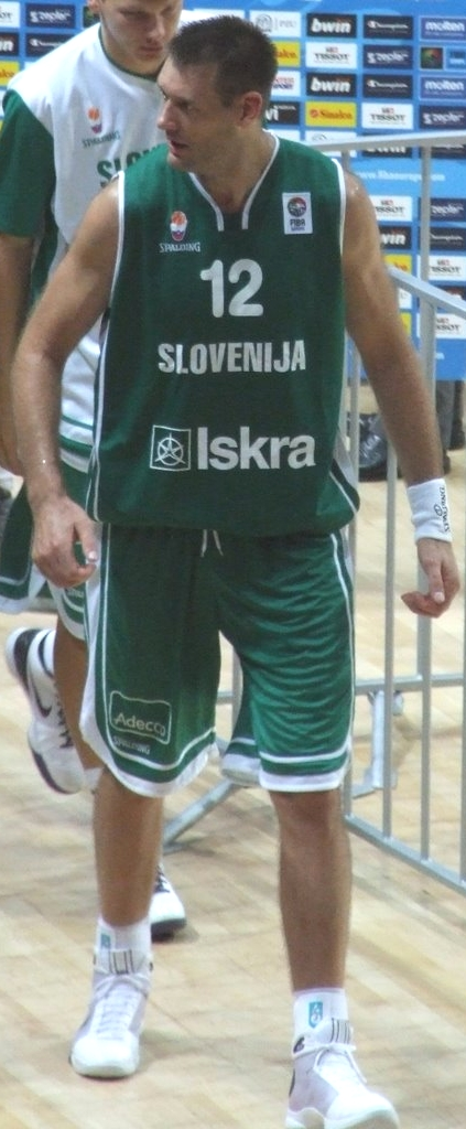 Slovenia vs. Great Britain at EuroBasket 2009.